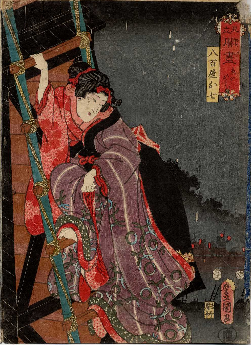 Woodblock print by Utagawa Kunisada I, here signing with 'Toyokuni ga'; series ’Darkness of love' (Mitate yami Jin); the actor Iwai Kumesaburō III as yaoya Oshichi (八百屋お七); publisher: Hayashiya Shōgorō